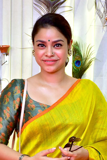 Sumona Chakravarti attends the rice ceremony of their grandson Krishh Lahiri